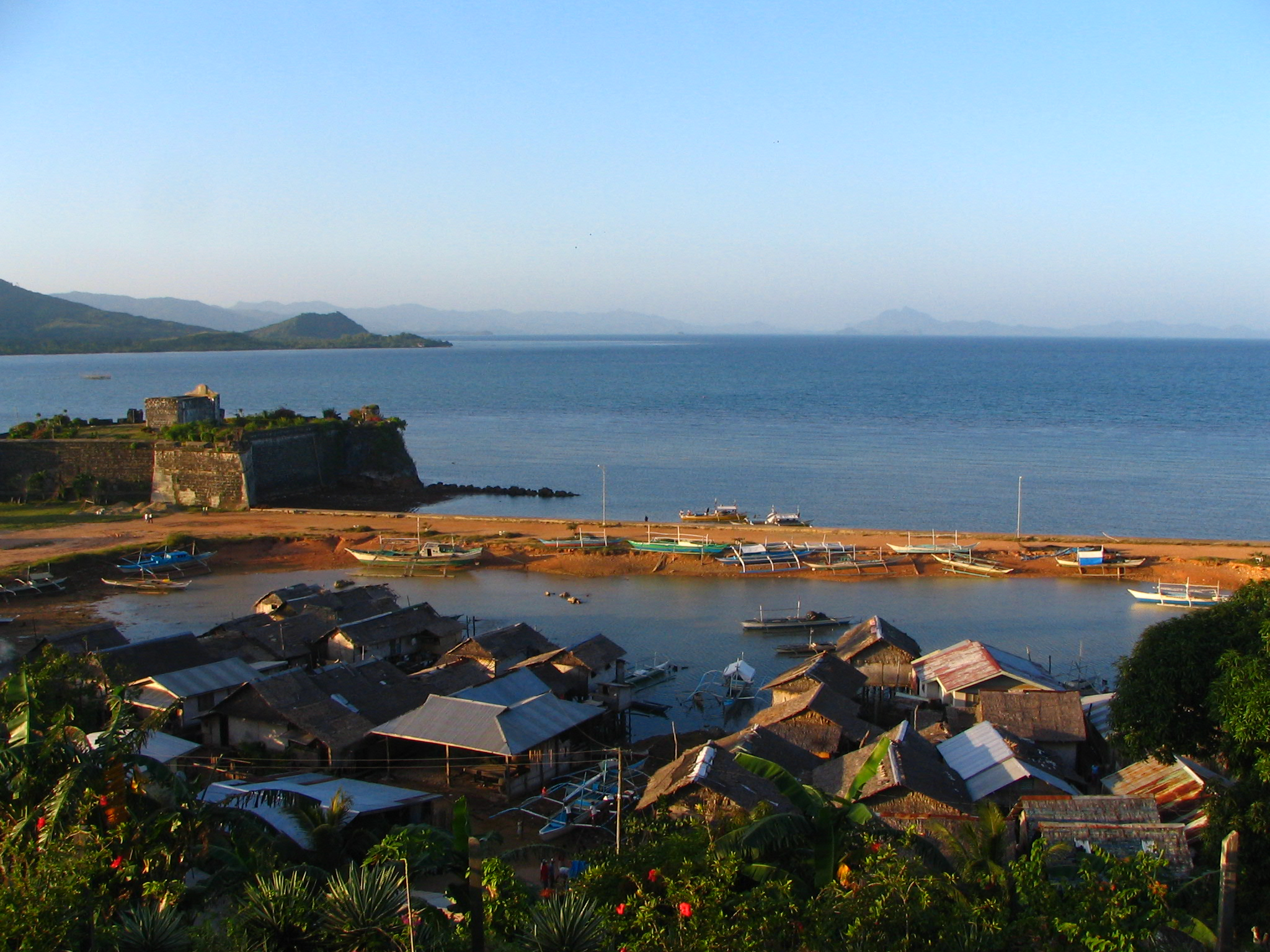 The small town of Taytay in northern Palawan